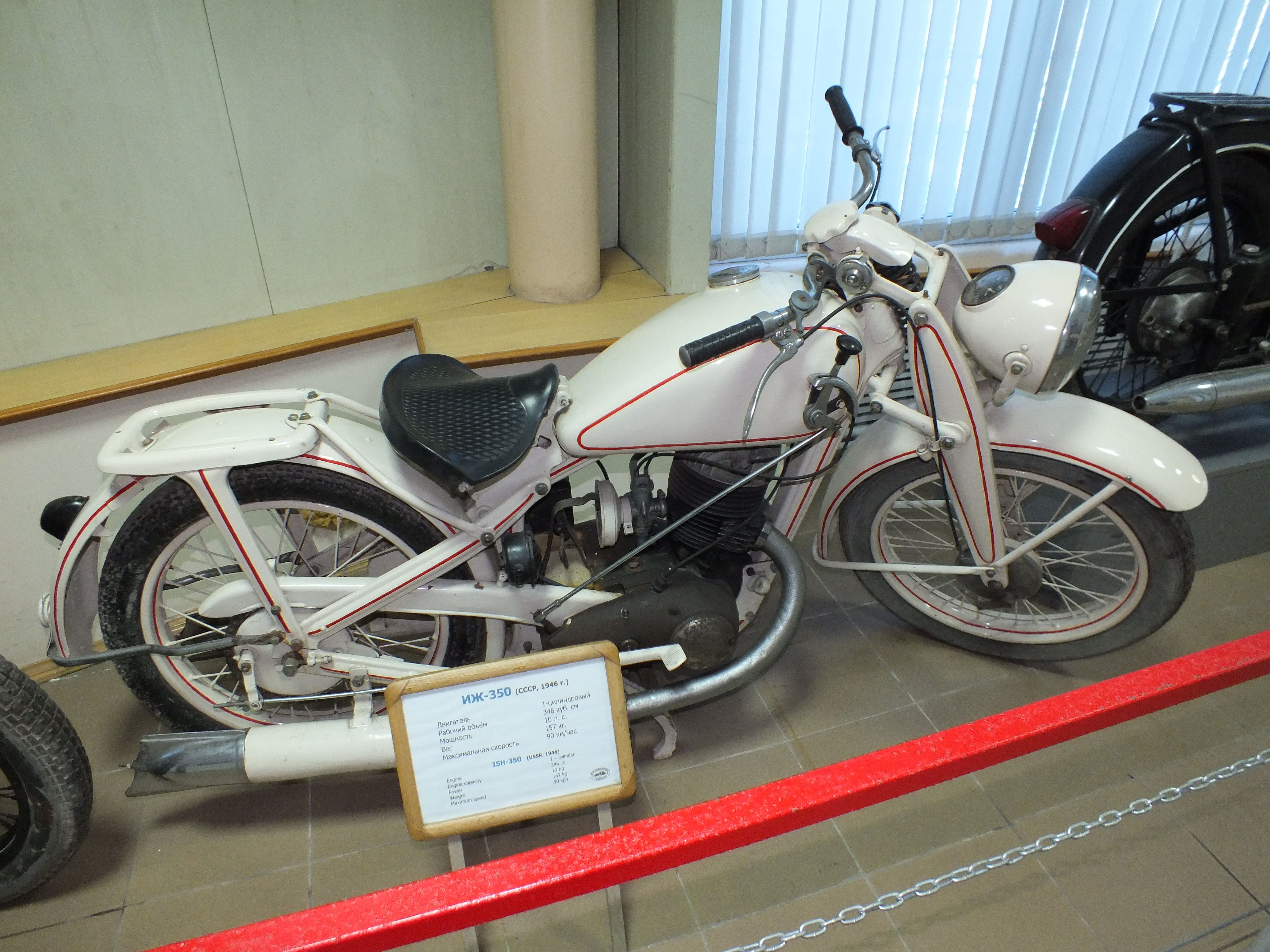 IZH motorcycles